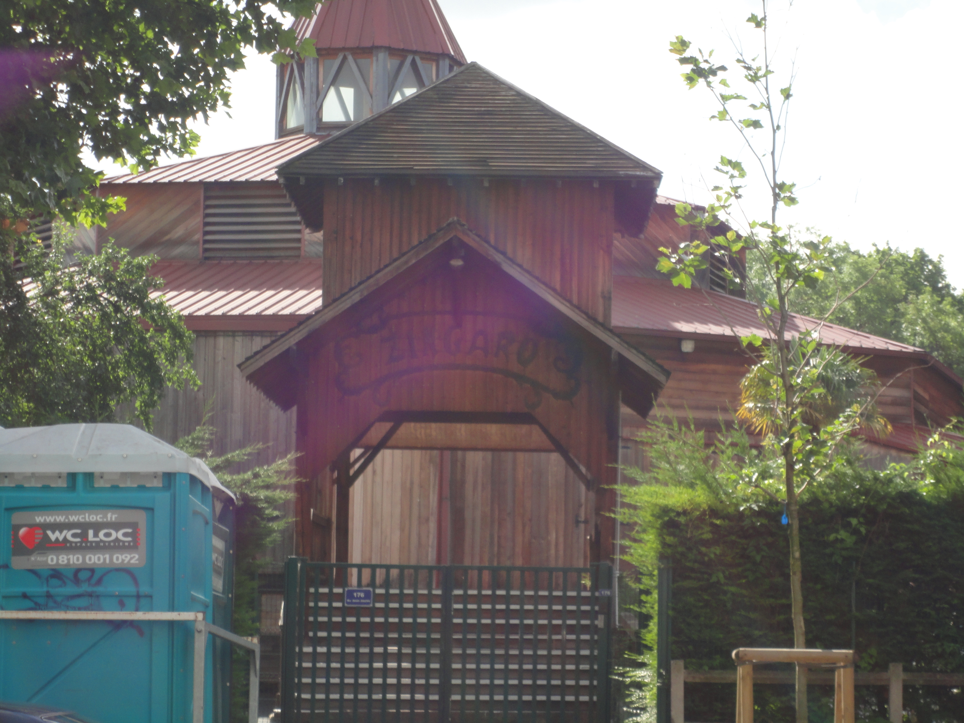 Zingaro circus at Aubervilliers